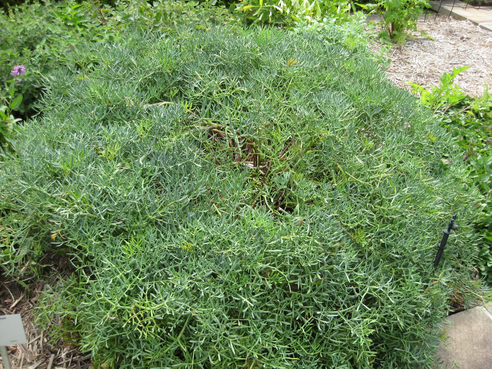 Photographed at the Royal Botanic Gardens Sydney (Australia) in January